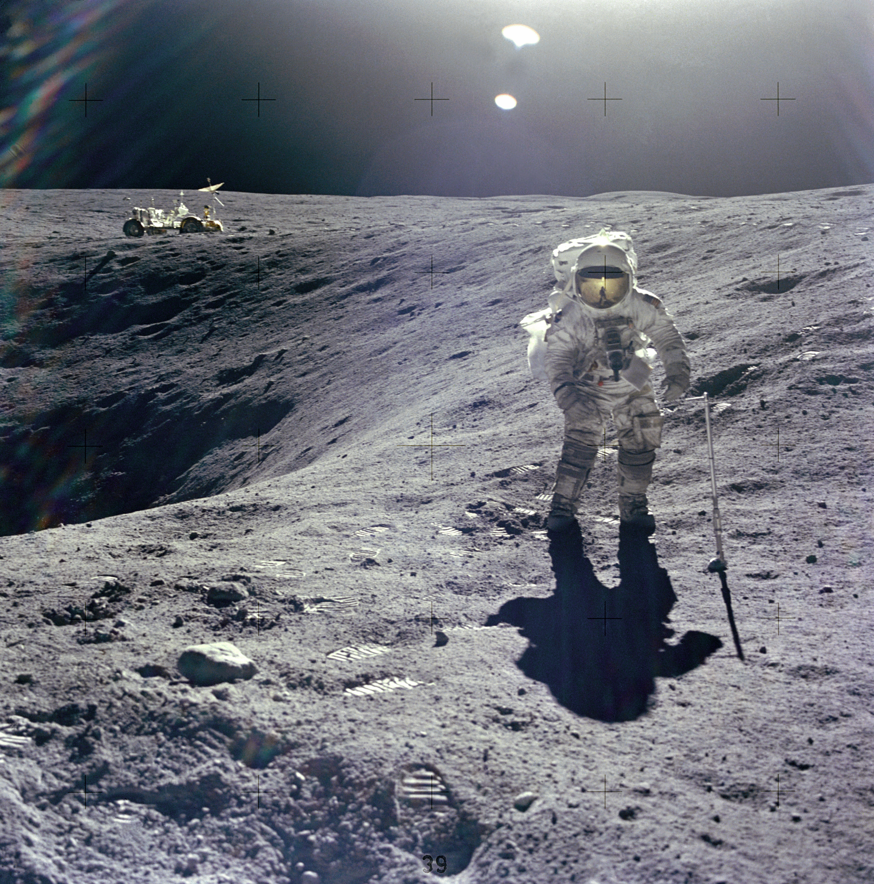 Astronaut Charles M. Duke Jr., Lunar Module pilot of the Apollo 16 mission, is photographed collecting lunar samples at Station no. 1 during the first Apollo 16 extravehicular activity at the Descartes landing site. This picture, looking eastward, was taken by Astronaut John W. Young, commander. Duke is standing at the rim of Plum crater, which is 40 meters in diameter and 10 meters deep. The parked Lunar Roving Vehicle can be seen in the left background.